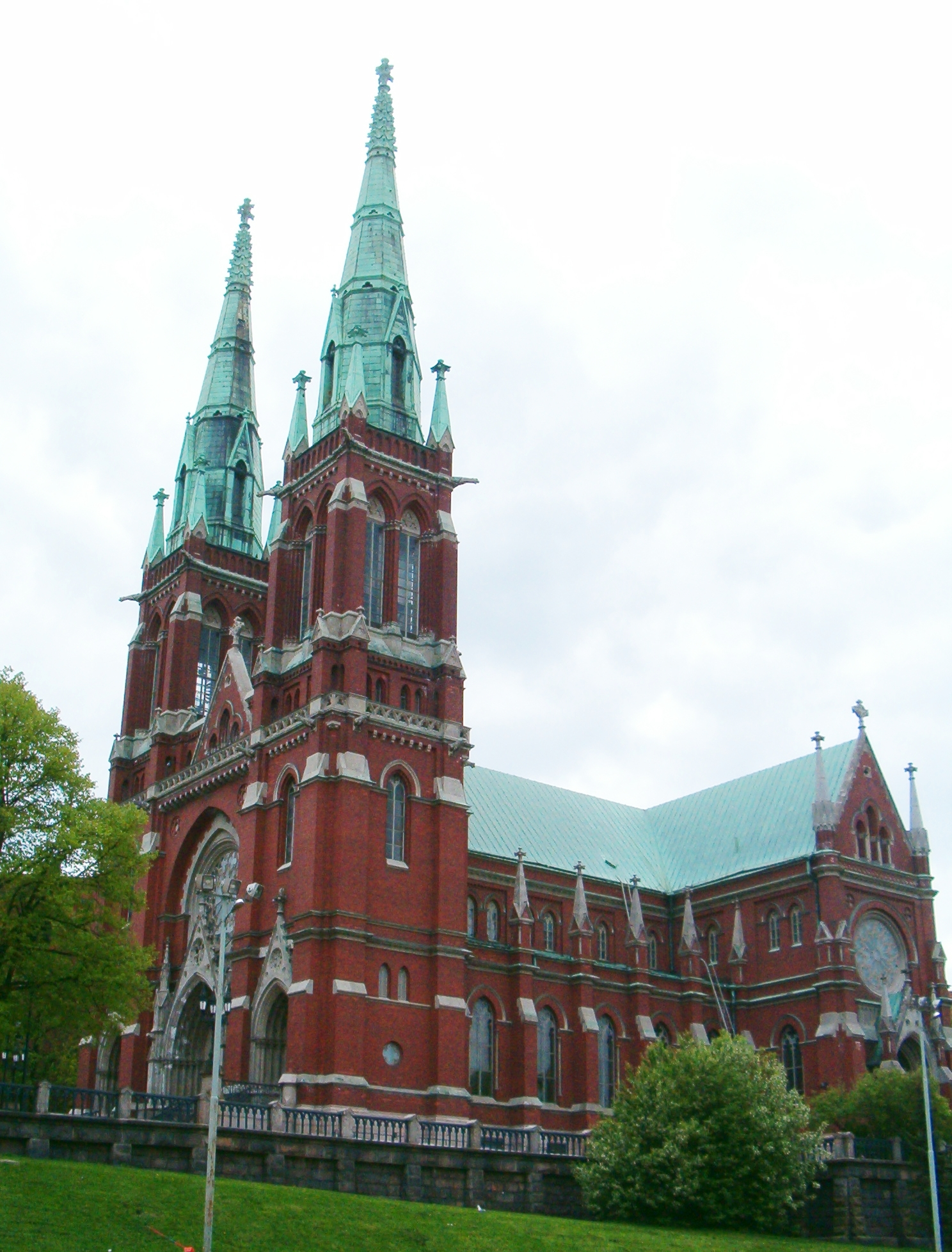 St. John's Church in Helsinki, Finland.